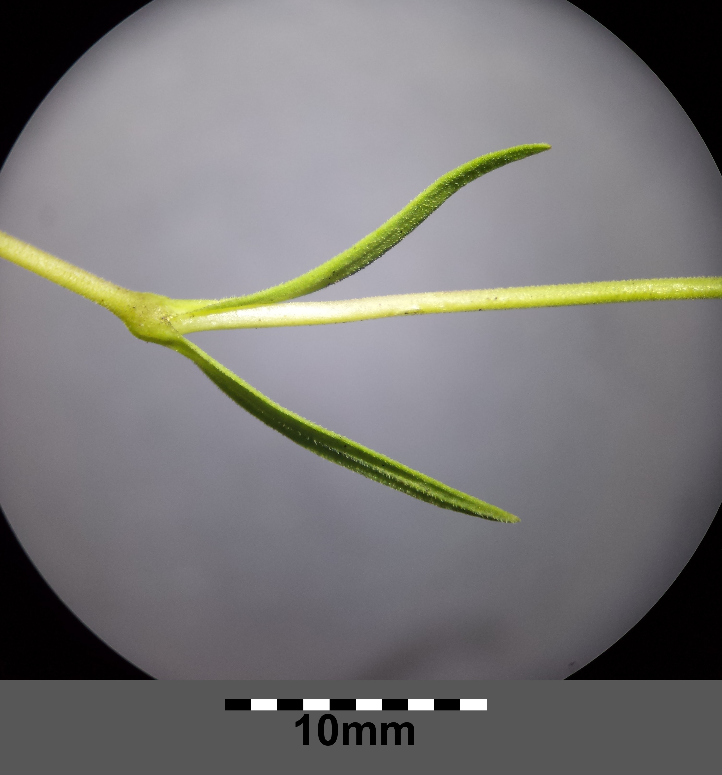 Stipe with leaves Taxonym: Dianthus deltoides ss Fischer et al. EfÖLS 2008 ISBN 978-3-85474-187-9 Location: near Komau, district Freistadt, Upper Austria - ca. 850 m a.s.l. Habitat: slope